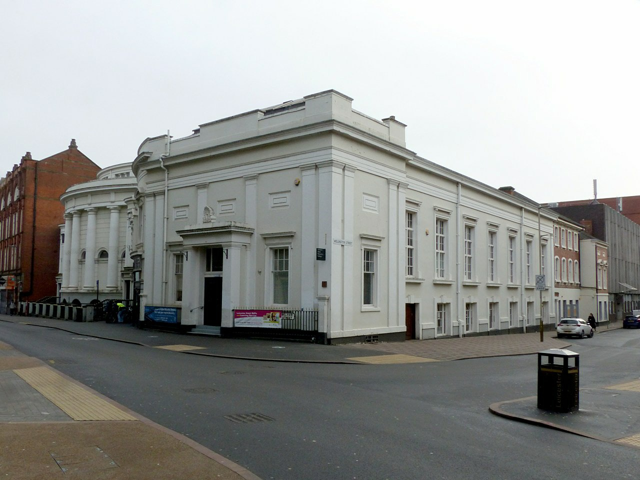 Former City Lending Library Belvoir Street Leicester adjacent to former Belvoir Street Chapel, renamed Hansom Hall